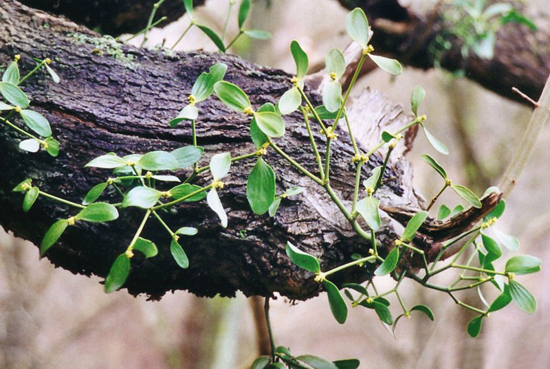 Flowering mistletoe (Viscum album) in the Eifel, Germany